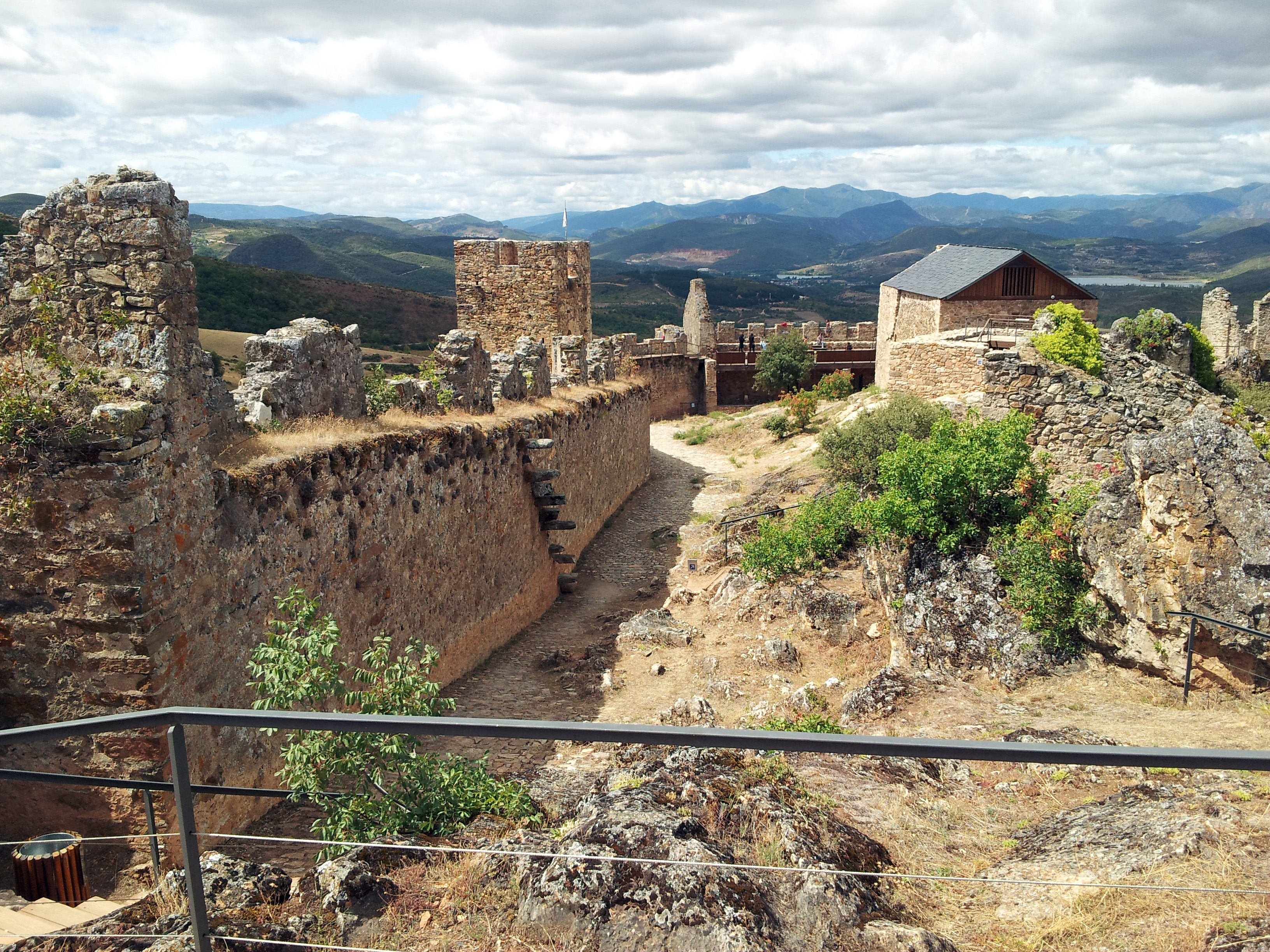 Castle of Cornatel, Priaranza del Bierzo (León, Spain)